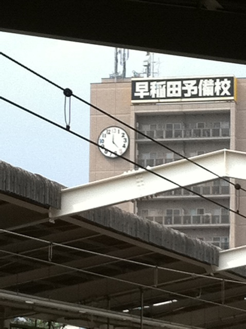 Posted by 早稲田予備校 [1]